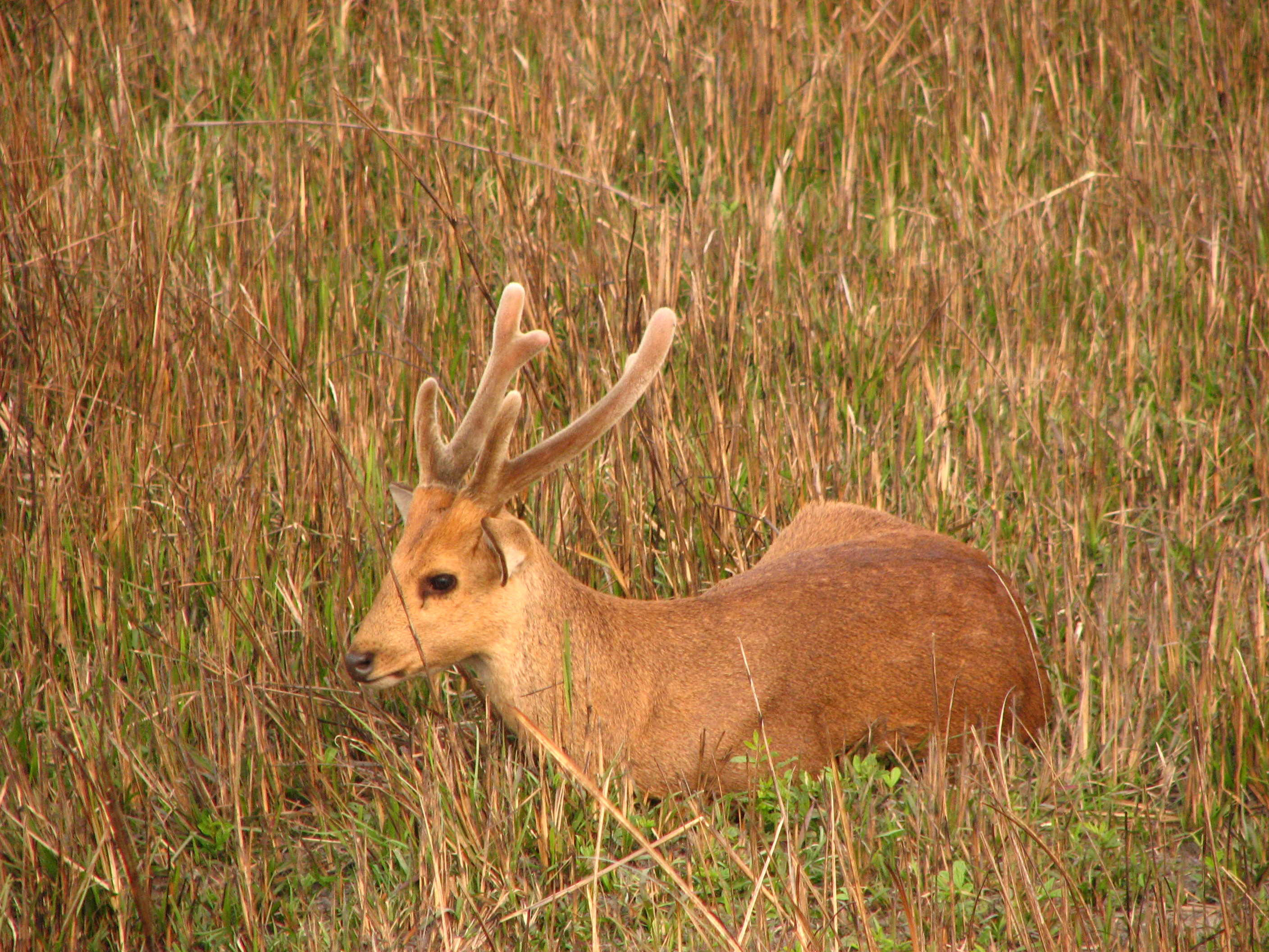 Picture taken in Kaziranga Tiger Reserve, Assam, India